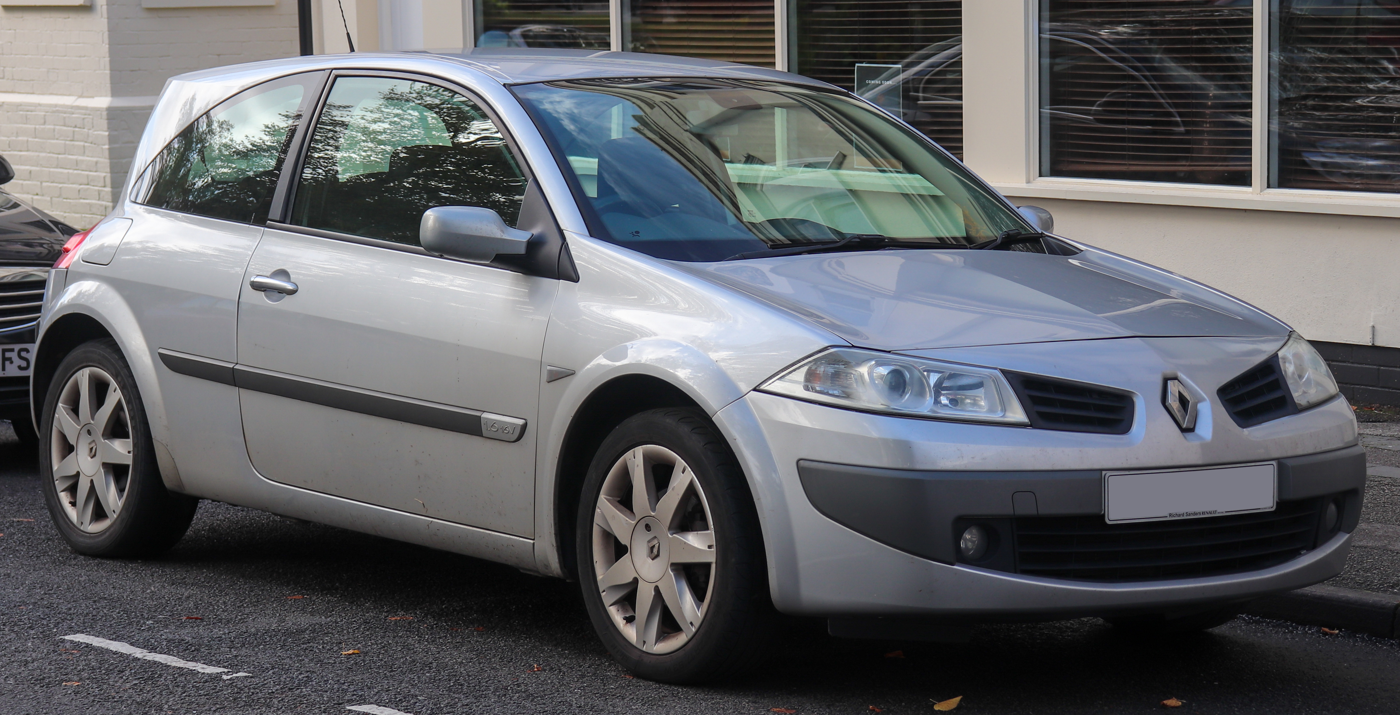 2007 Renault Megane Dynamique 1.6 Front Taken in Leamington Spa